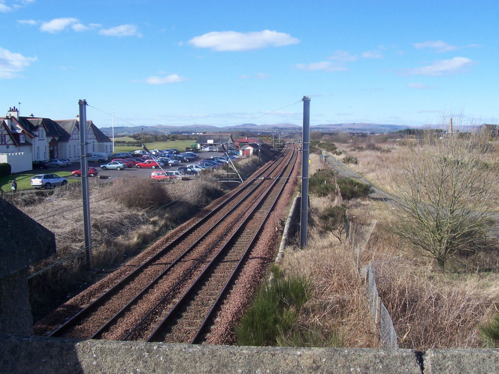 The site of the former Bogside railway station, North Ayrshire, Scotland. Photo taken by Dreamer84 in late March 2006.